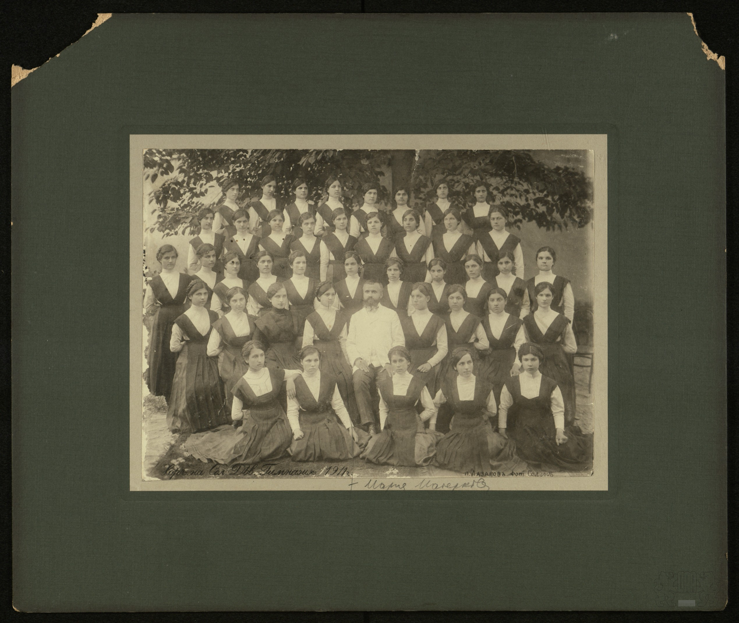 Chorus_of_the_Bulgarian_Girls'_High_School_of_Thessaloniki_in_1911.